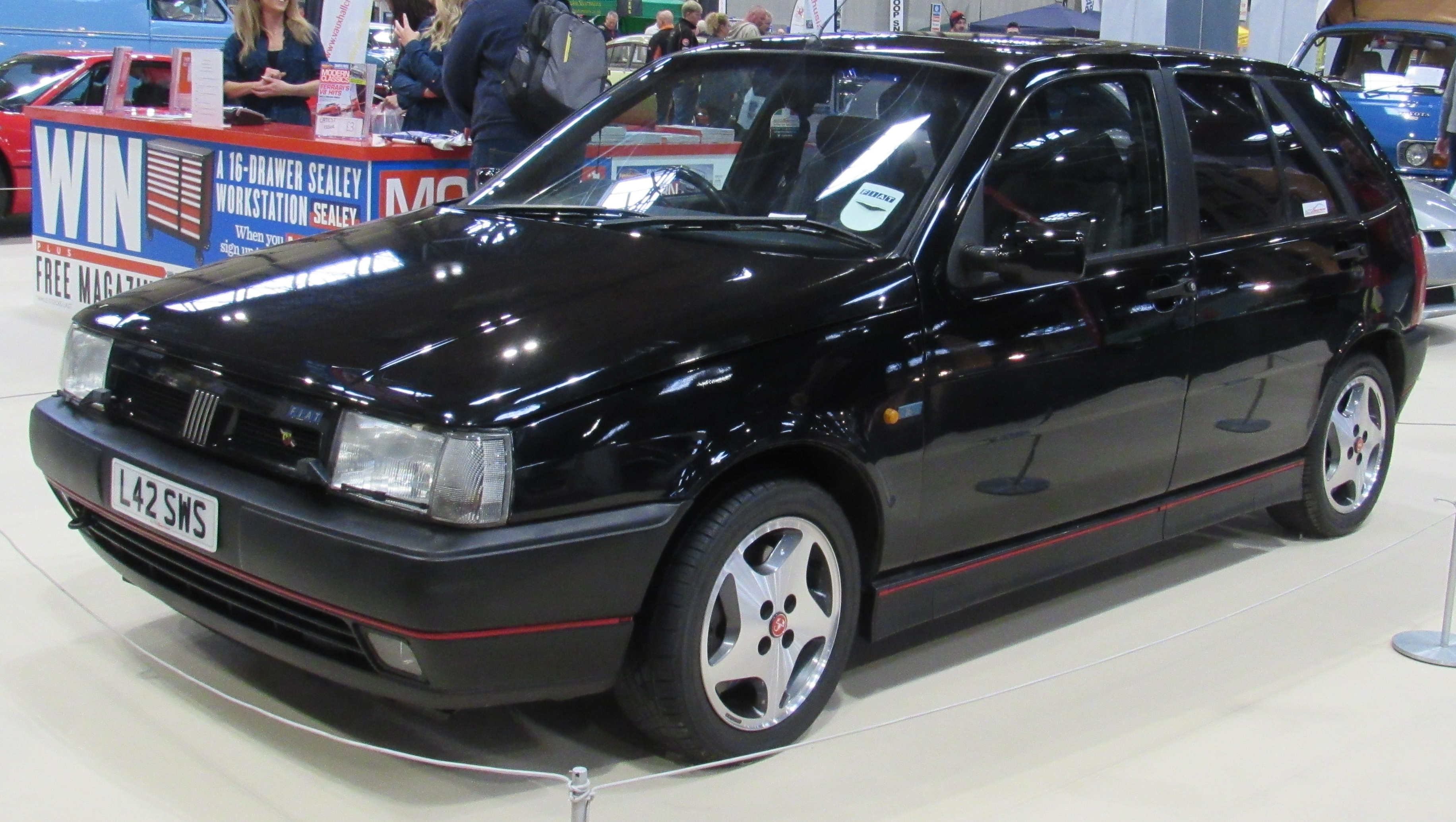 1993 Fiat Tipo Sedicivalvole 16V 2.0 Front Taken at the NEC Classic Motor Show 2017